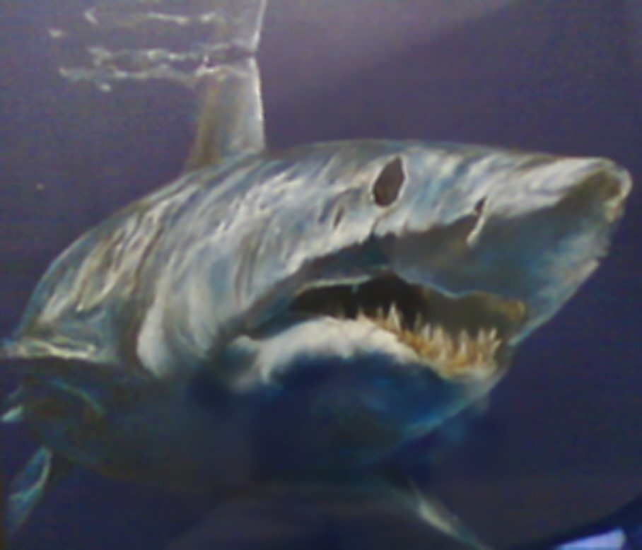 Mako shark